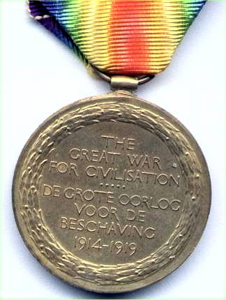 Interallied Victory Medal of WWI (South Africa)